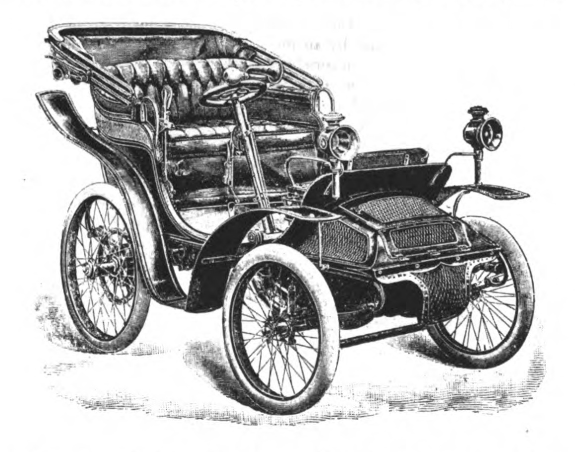 Shephard Motor-Voiturette, equipped with 5 h.p. Doré engine.